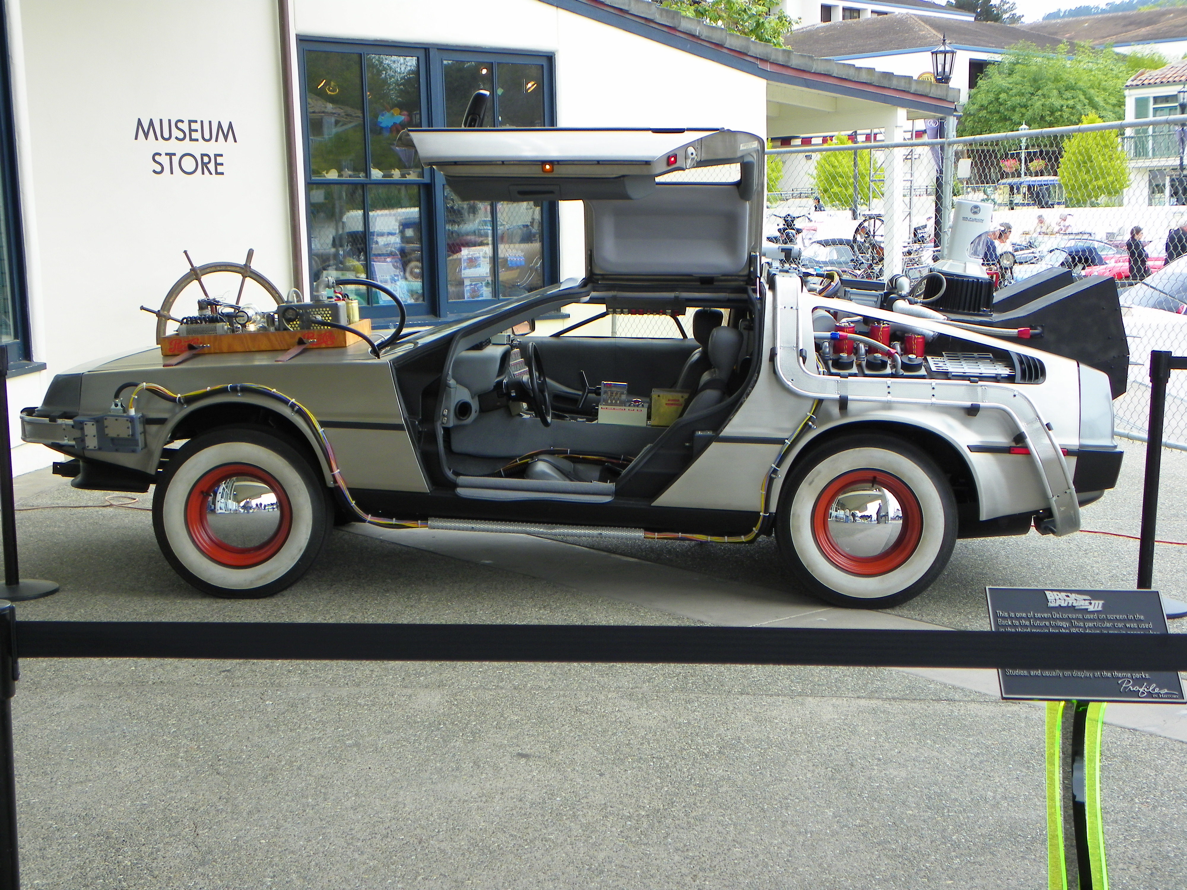 De Lorean DMC-12 used for the third Back to the Future film. The vehicle was on display at the Museum of Monterey in August 2011.